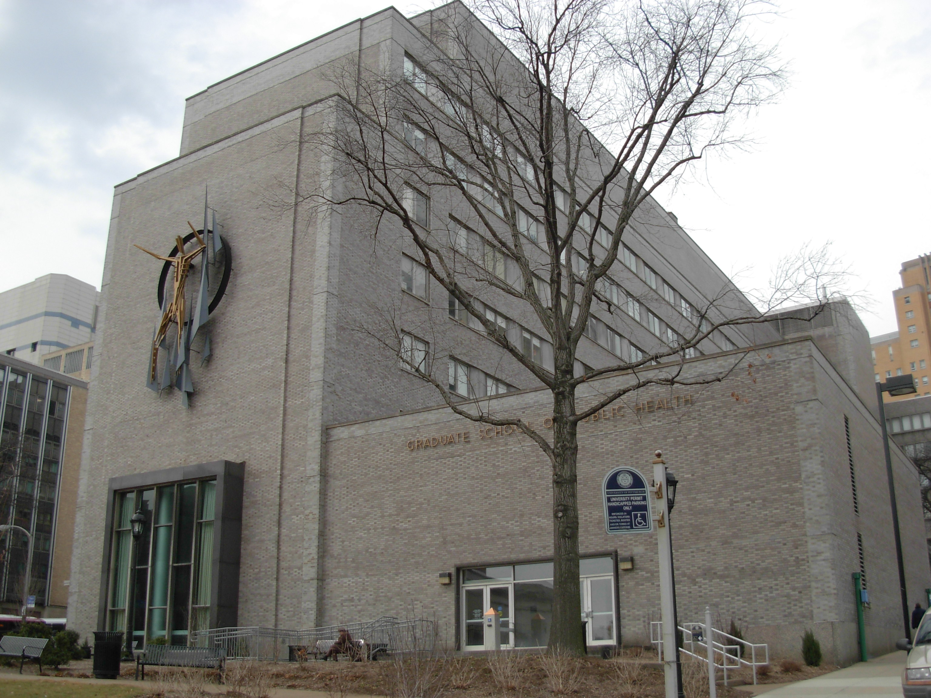 The Graduate School of Public Health and UPMC. Photo by myself.